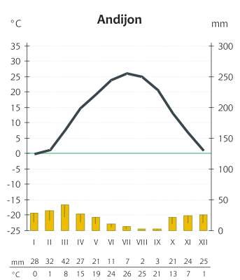 Climograph of Andijan.